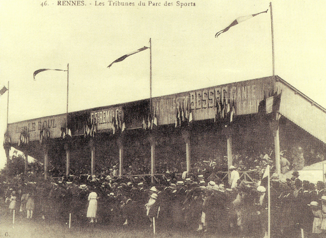 Postcard - First stand of Stade de la route de Lorient, in 1912